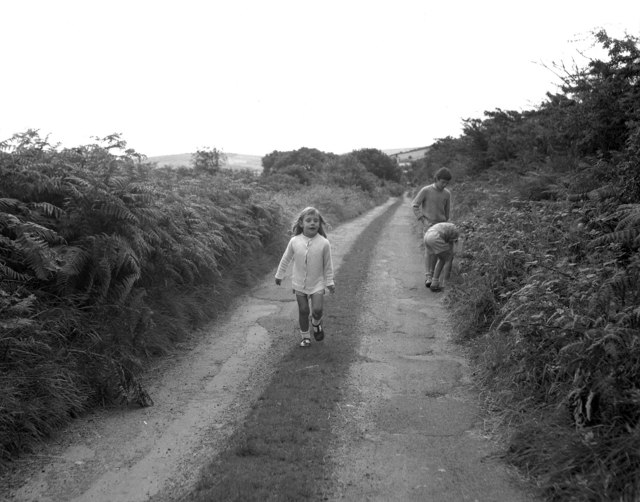 Minor road from Gooseneck to the 'Hibernian' This very narrow road, which is just about motorable in a small car, links the Gooseneck on the mountain road, with the 'Hibernian' on the main Ramsey to Laxey road